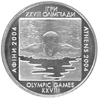 Coin of Ukraine